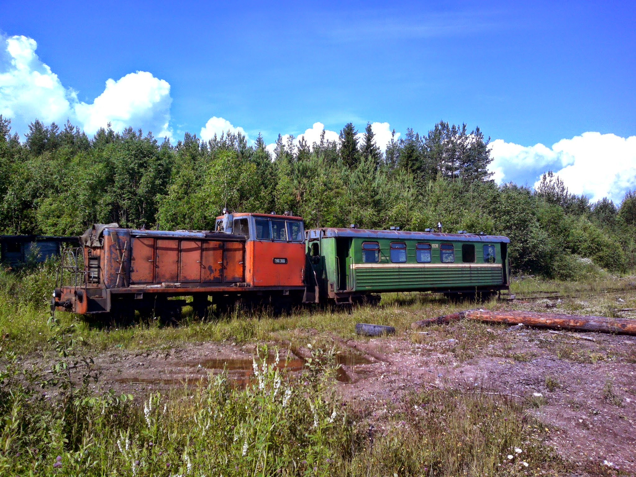 We was been threre at june of 2014. There was an one passenger train Avnuga - Soiga, two times in some days.